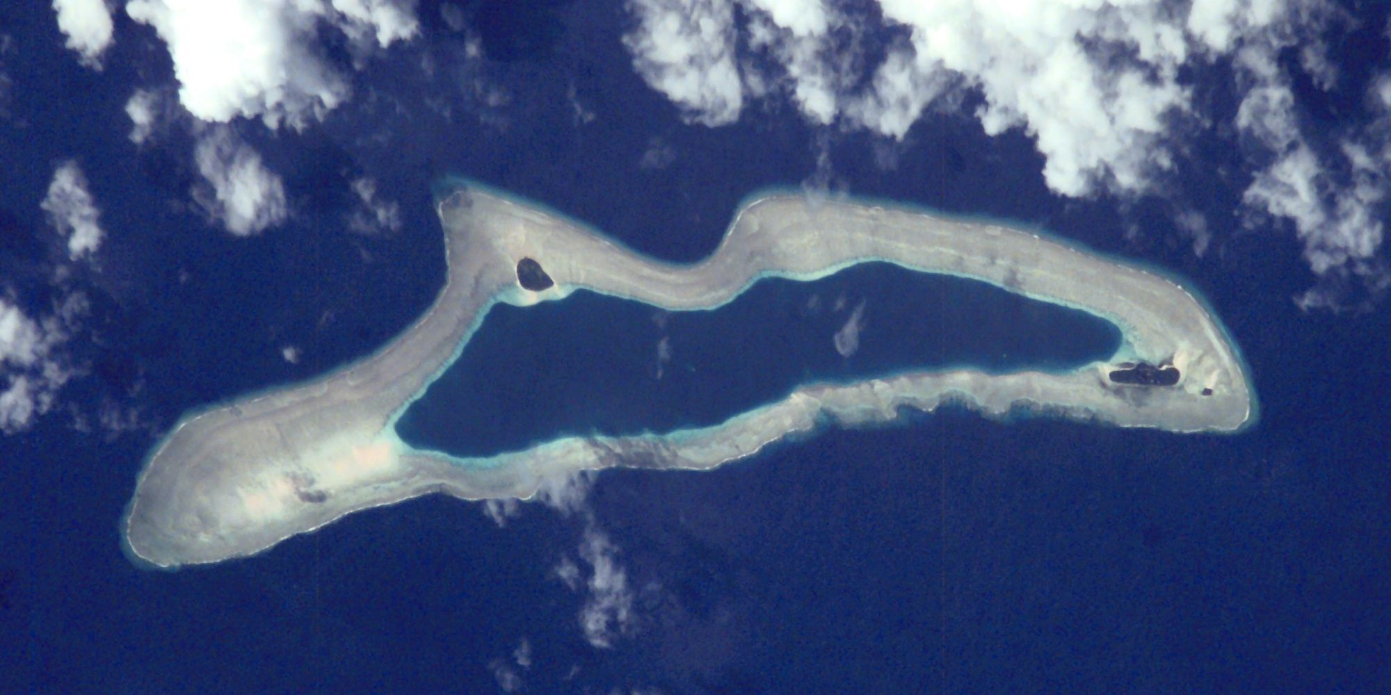 NASA astronaut image of Eauripik Atoll, Yap State, Federated States of Micronesia